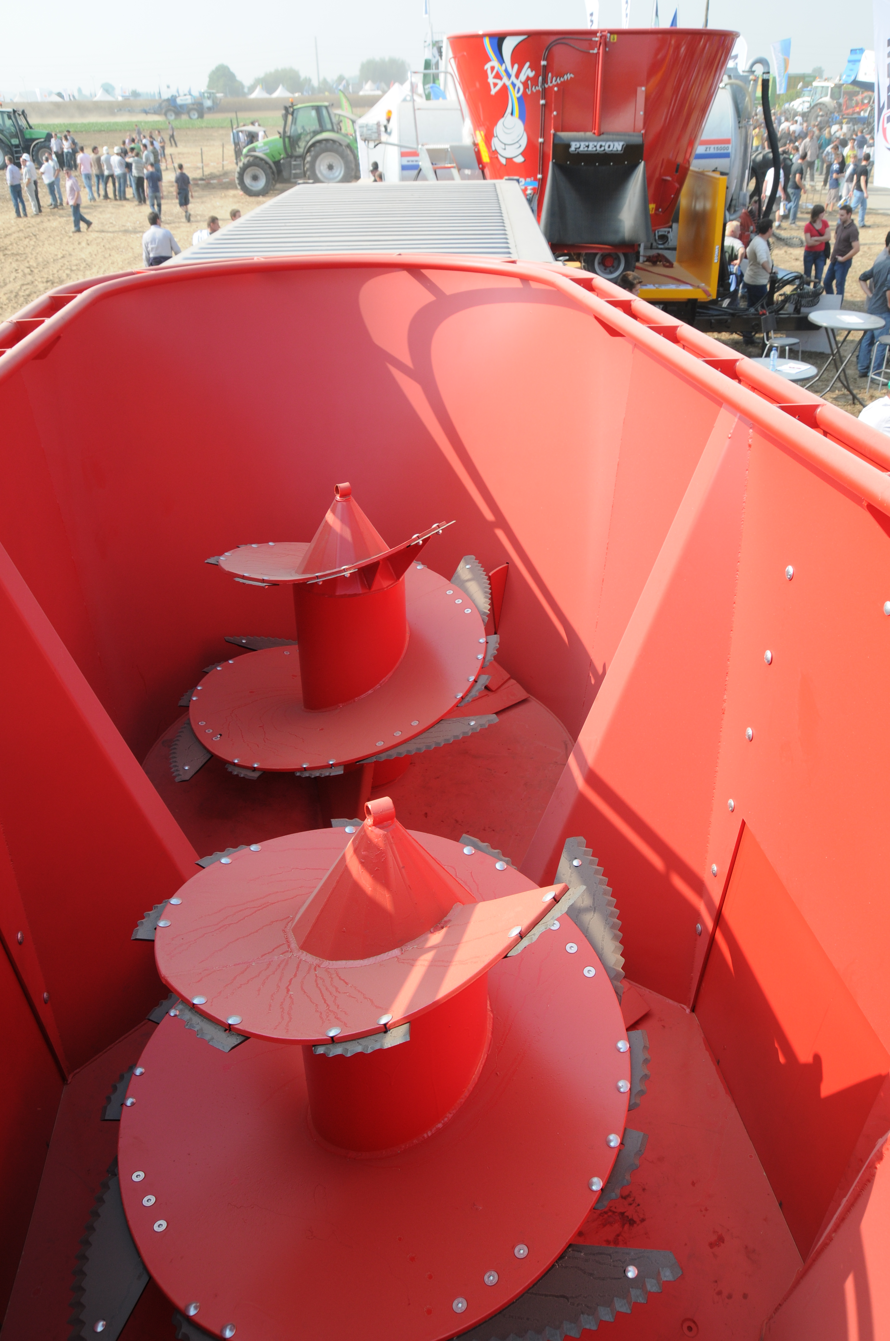 Fodder mixing trailer at Werktuigendagen 2009, Peecon Biga mixer in the background